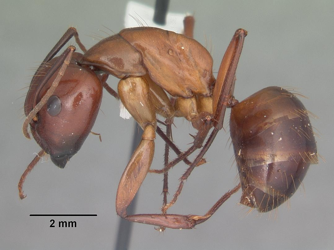 Profile view of ant Camponotus castaneus specimen casent0103653.